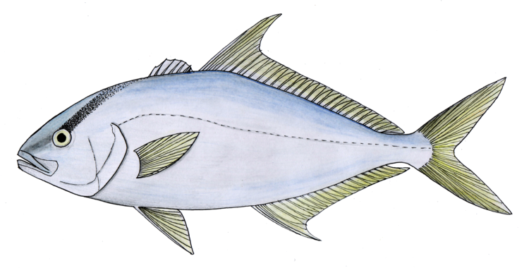 Hand drawn and coloured diagram of the Almaco Jack based on fishbase images